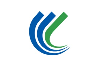 Flag of Shinonsen Hyogo